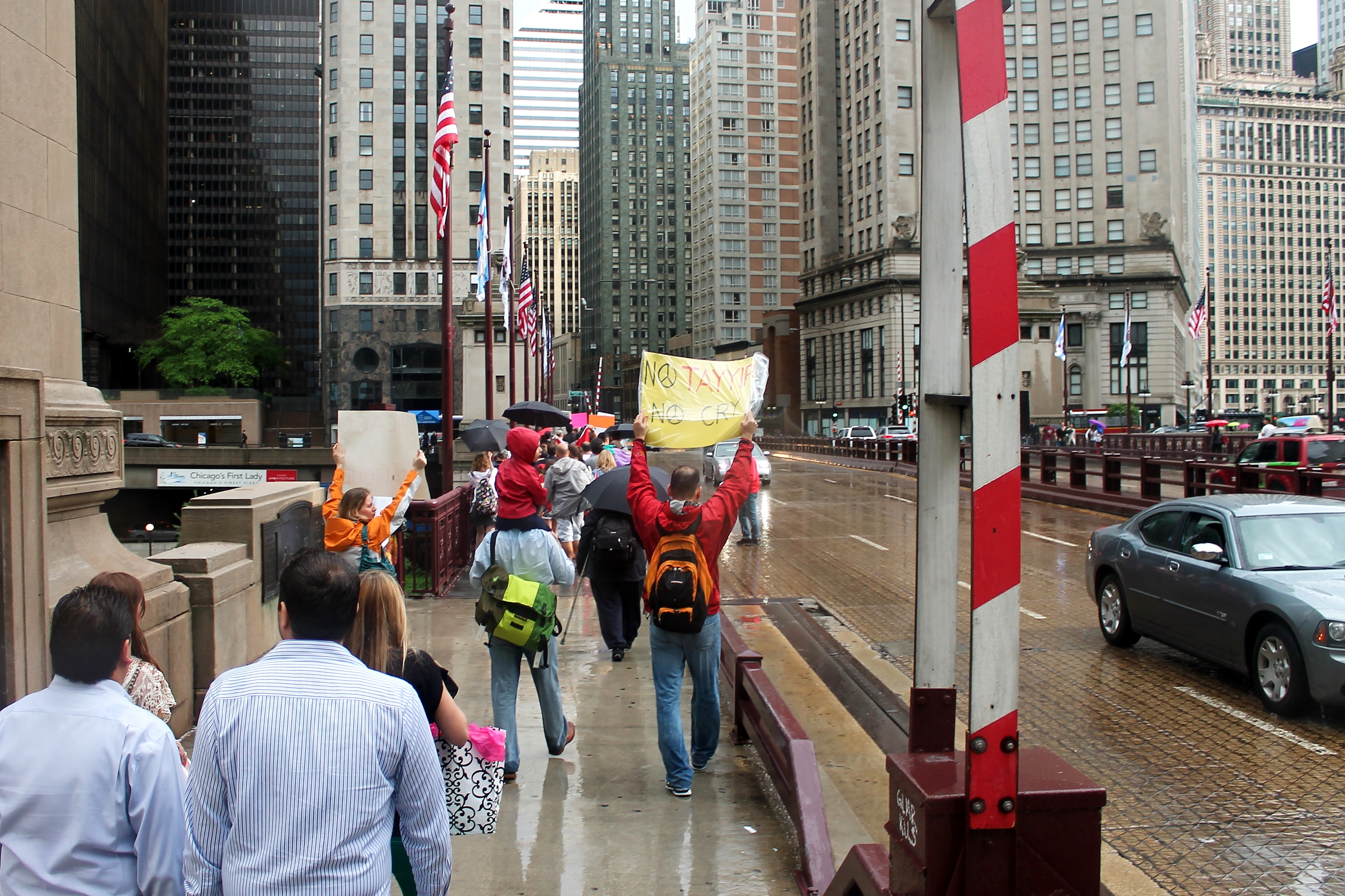 Taksim protests in Chicago, IL.